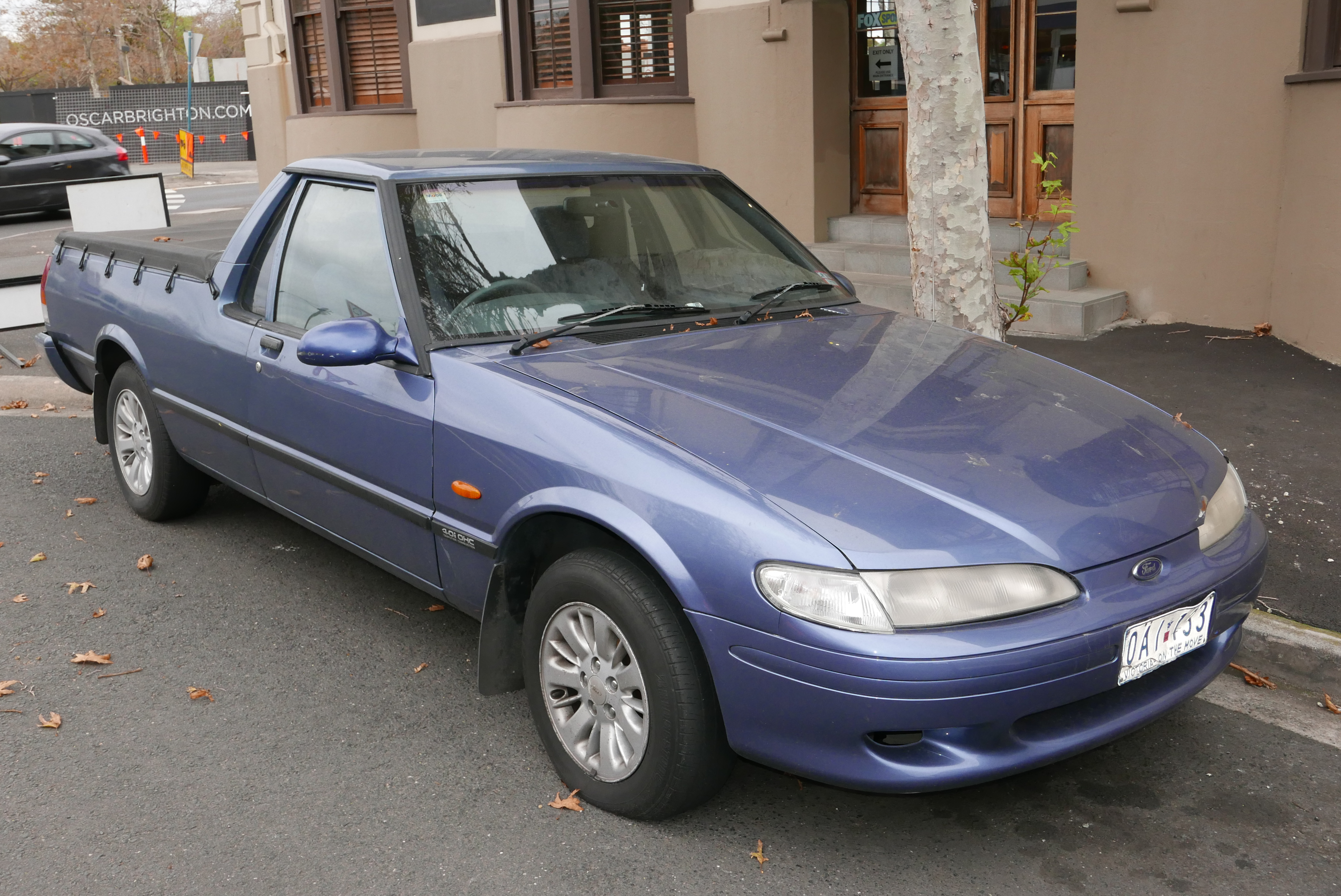 1996 Ford Falcon (XH) Longreach S utility. Photographed in Brighton, Victoria, Australia. Vehicle registration enquiry results Jurisdiction Victoria Registration OAI133 Chassis code 6FPAAAJLCMTY14407 Engine code JLCMTY14407 Compliance date 1996-10 Year of manufacture 1996